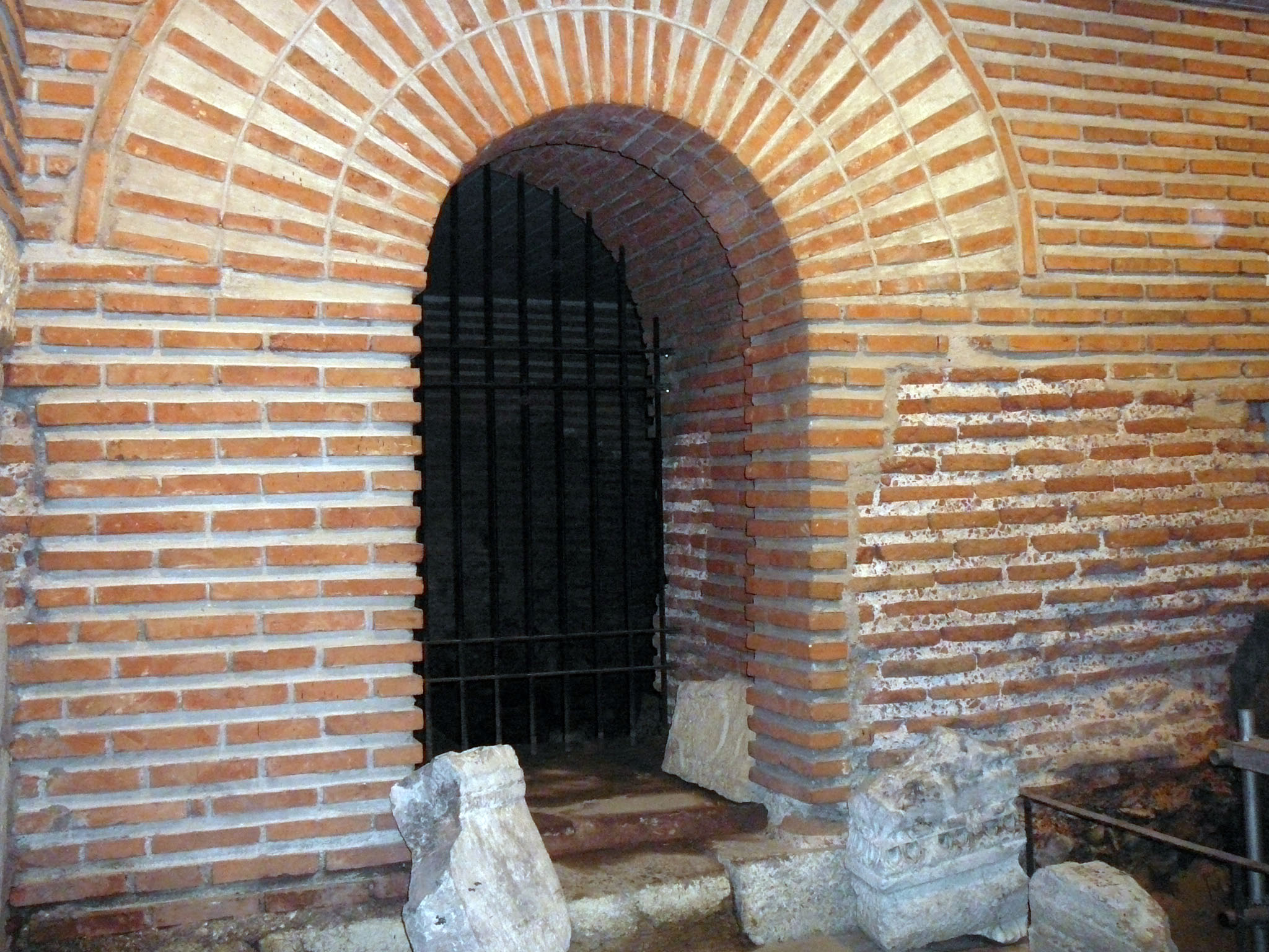 Serdica Fortress (Sofia)